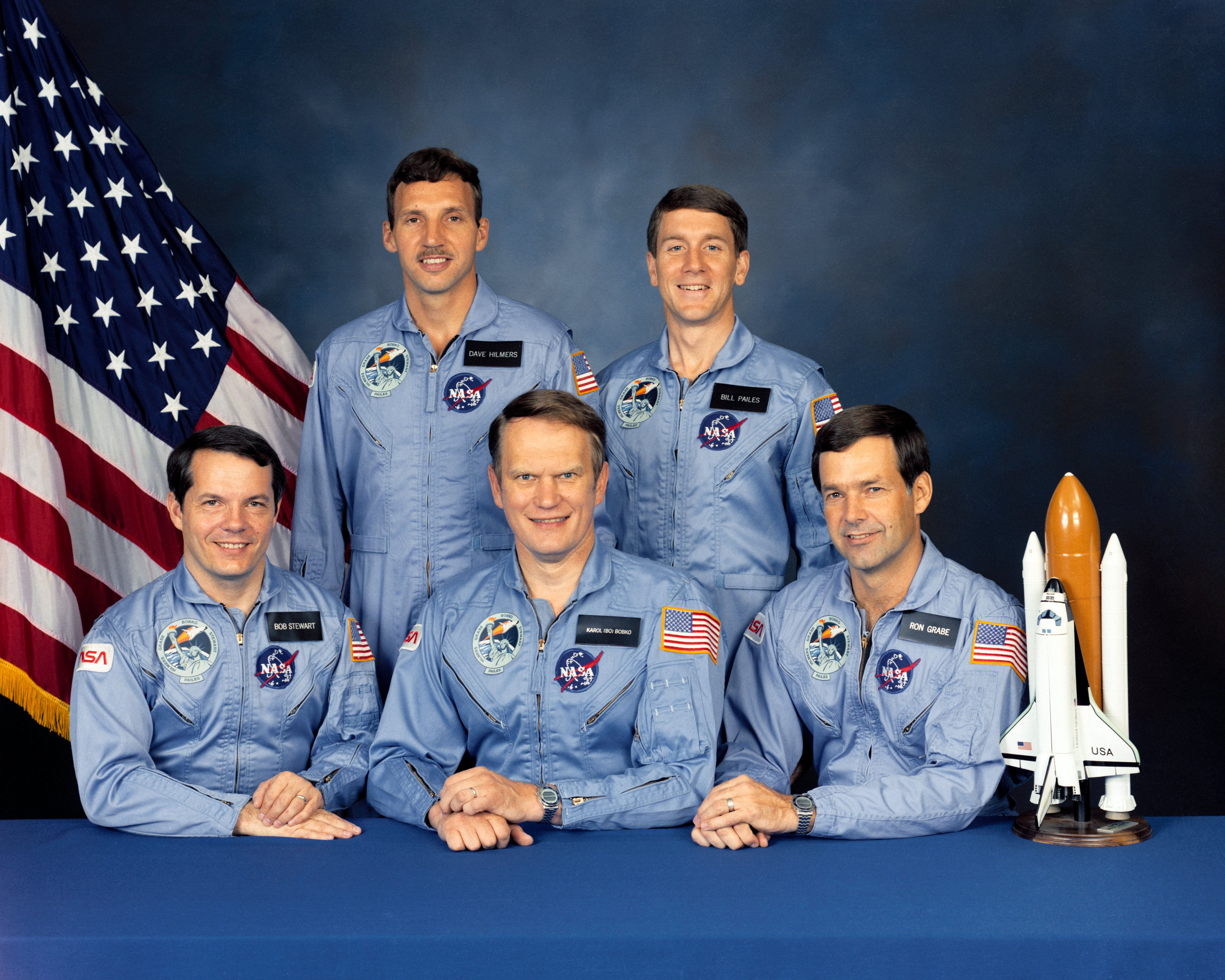 The crew assigned to the STS-51J mission included (seated left to right) Robert L. Stewart, mission specialist; Karol J. Bobko, commander; and Ronald J. Grabe, pilot. On the back row, left to right, are mission specialists David C. Hilmers, and Major William A. Pailes (USAF). Launched aboard the Space Shuttle Atlantis on October 3, 1985 at 11:15:30 am (EDT), the STS-51J mission was the second mission dedicated to the Department of Defense (DOD).